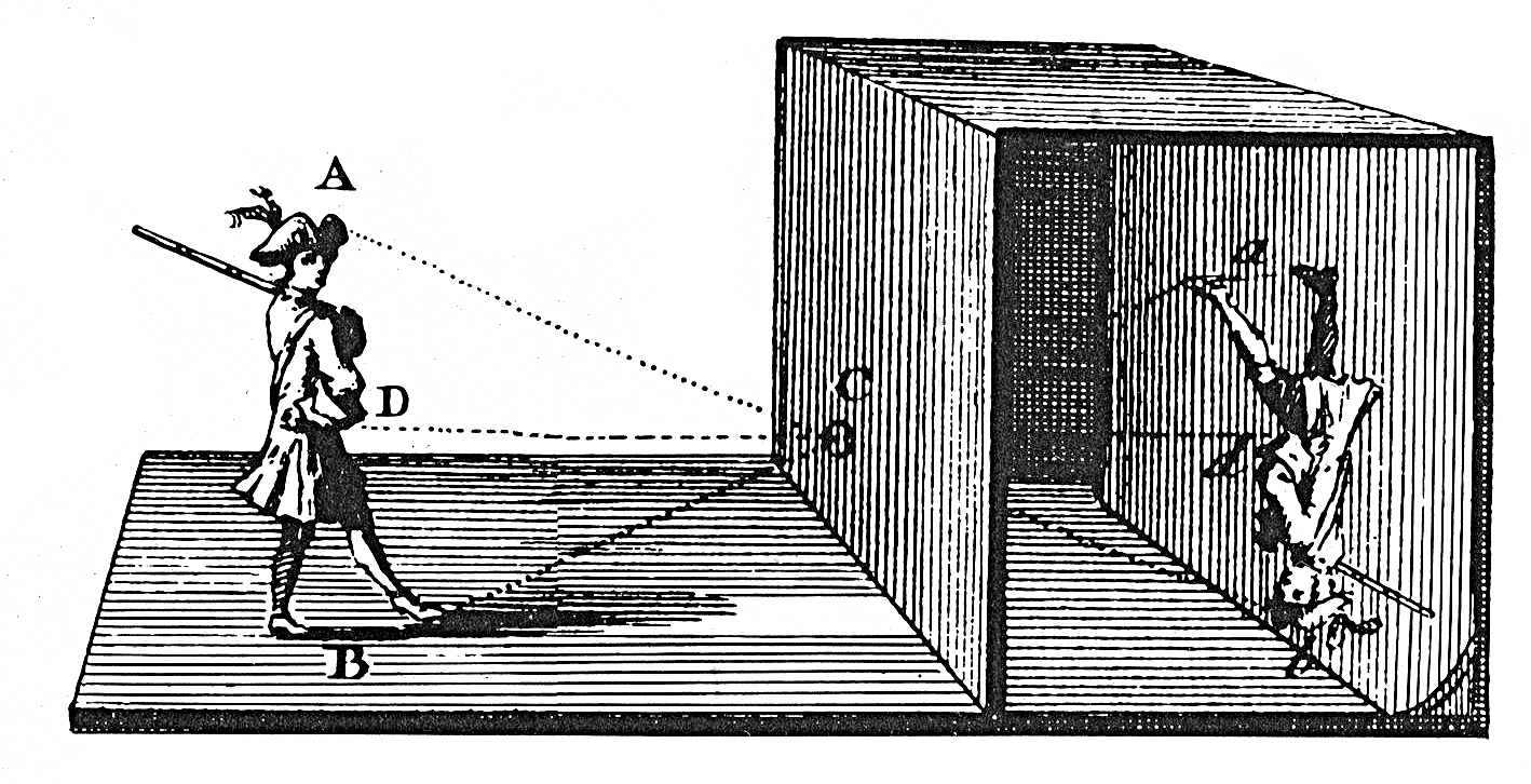 illustration of the camera obscura principle